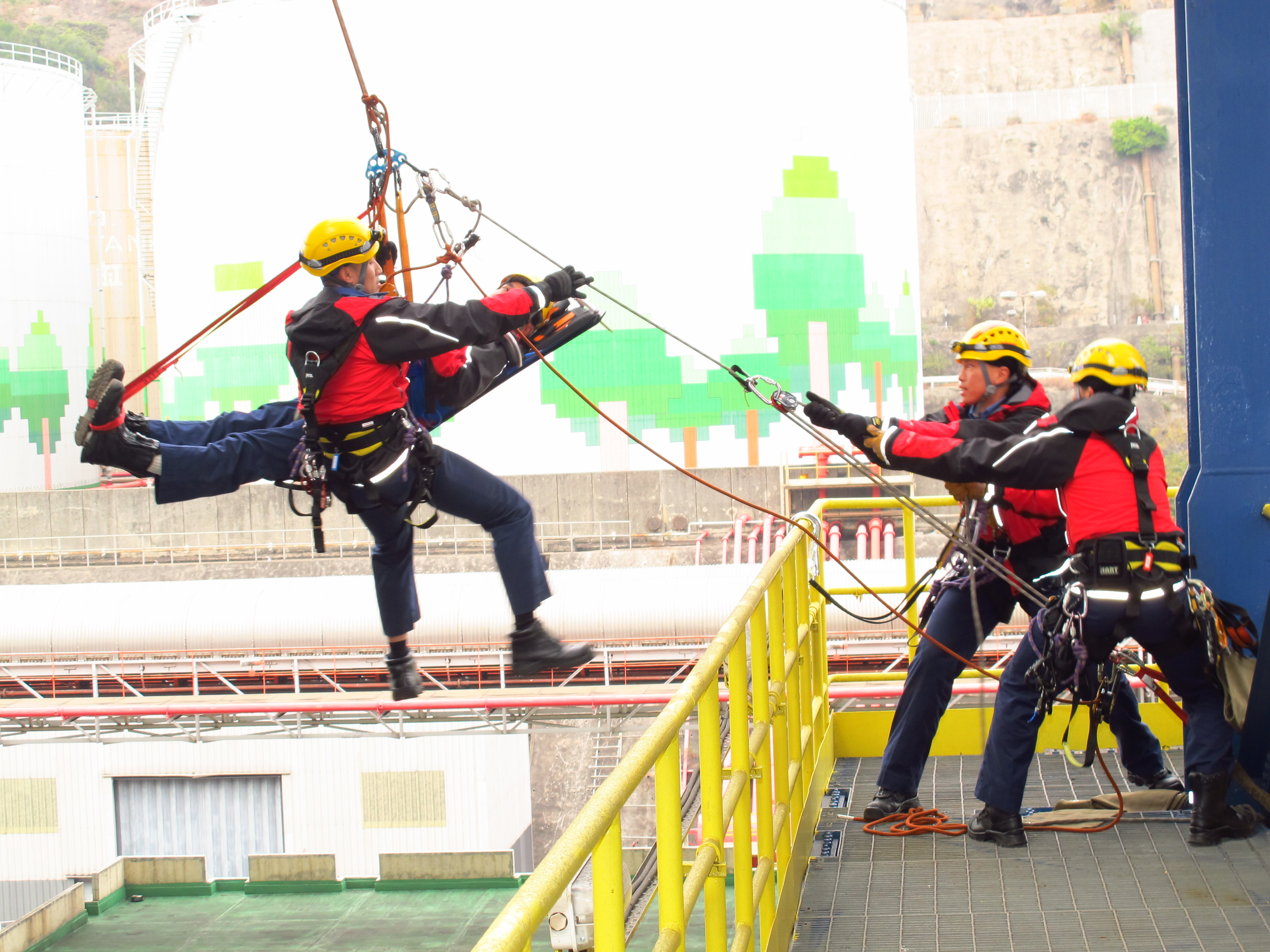 Rescue Training